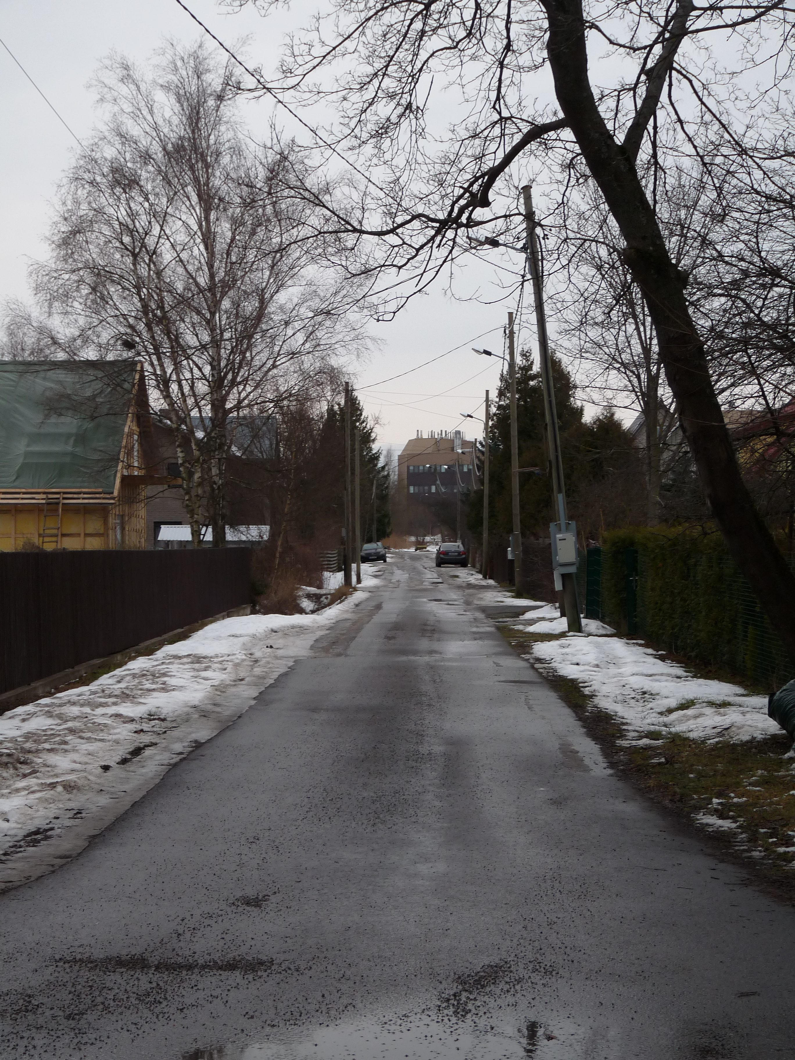 Rohumaa street in Tallinn, Estonia